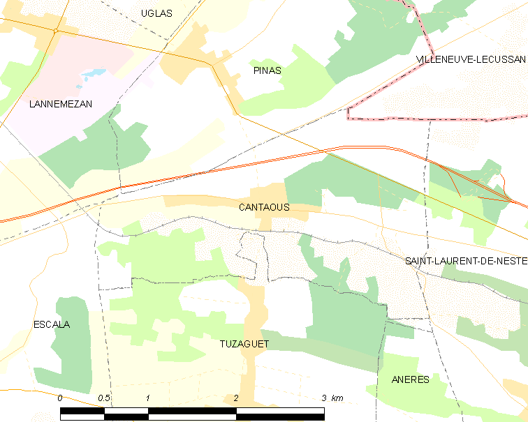 Map of French municipality